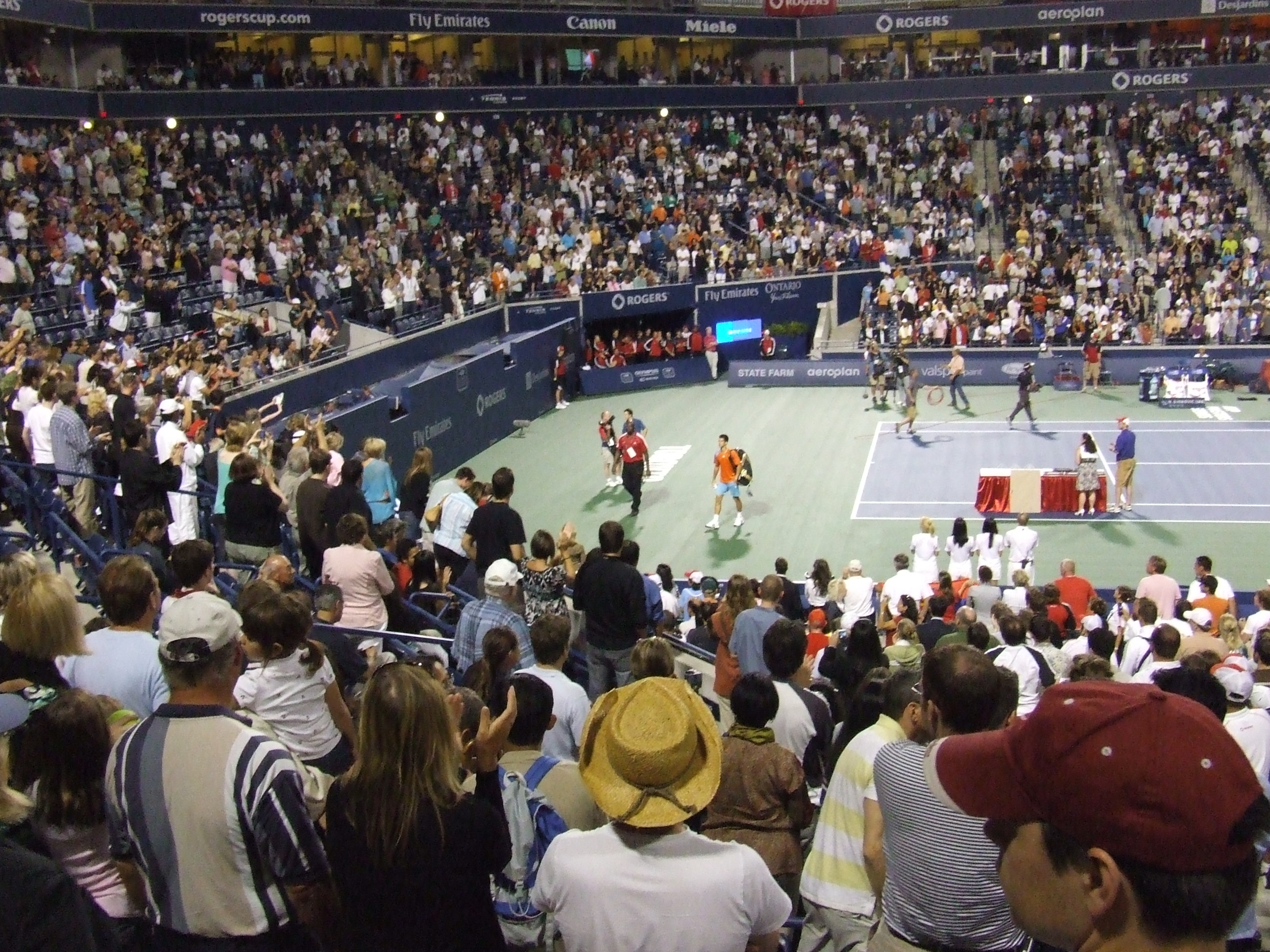 Novak after winning a game in Rogers Cup, Toronto 2008